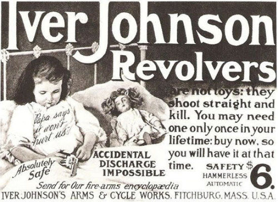 This revolver (and thus this advertisement) was only produced until 1906 so it is out of copyright